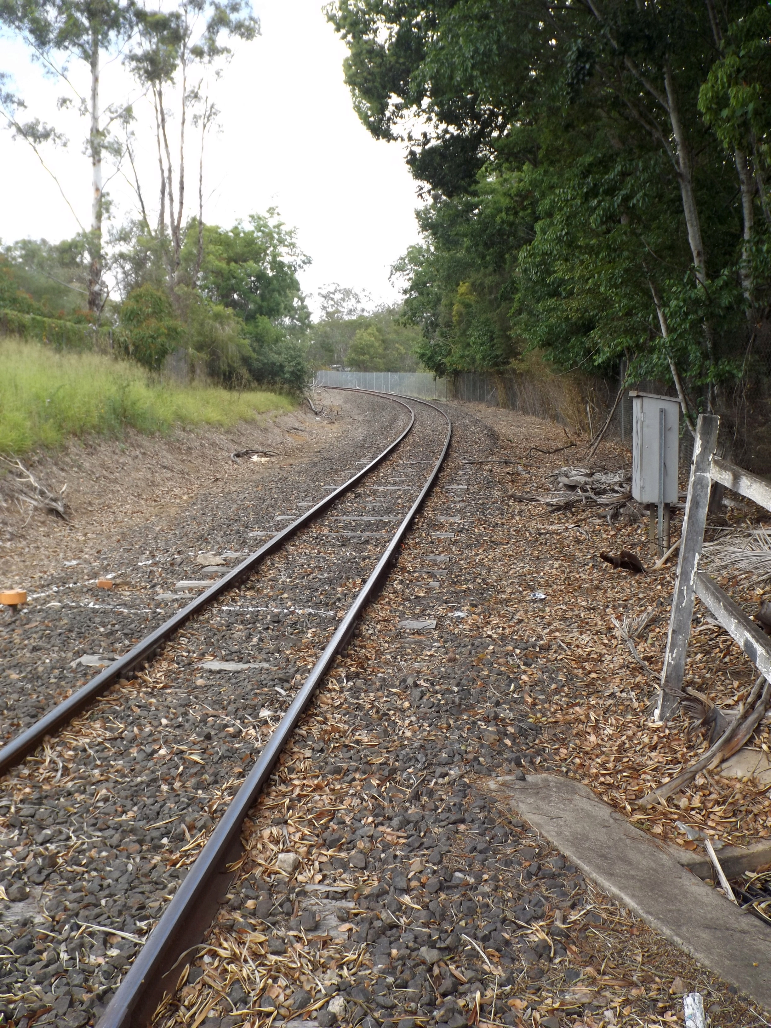 Photo of the Swanbank Extension railway line looking south at the Thomas Street crossing in Blackstone, Ipswich, Queensland, Australia.